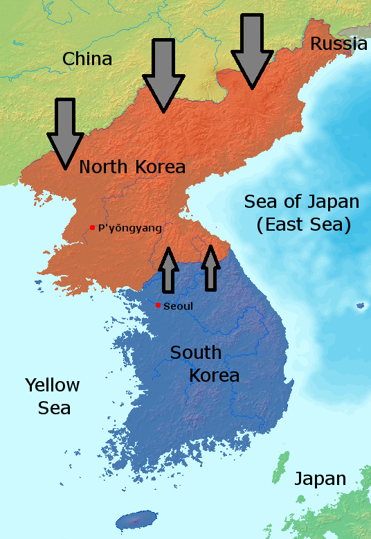 Flow of the Korean Wave across the North Korean border